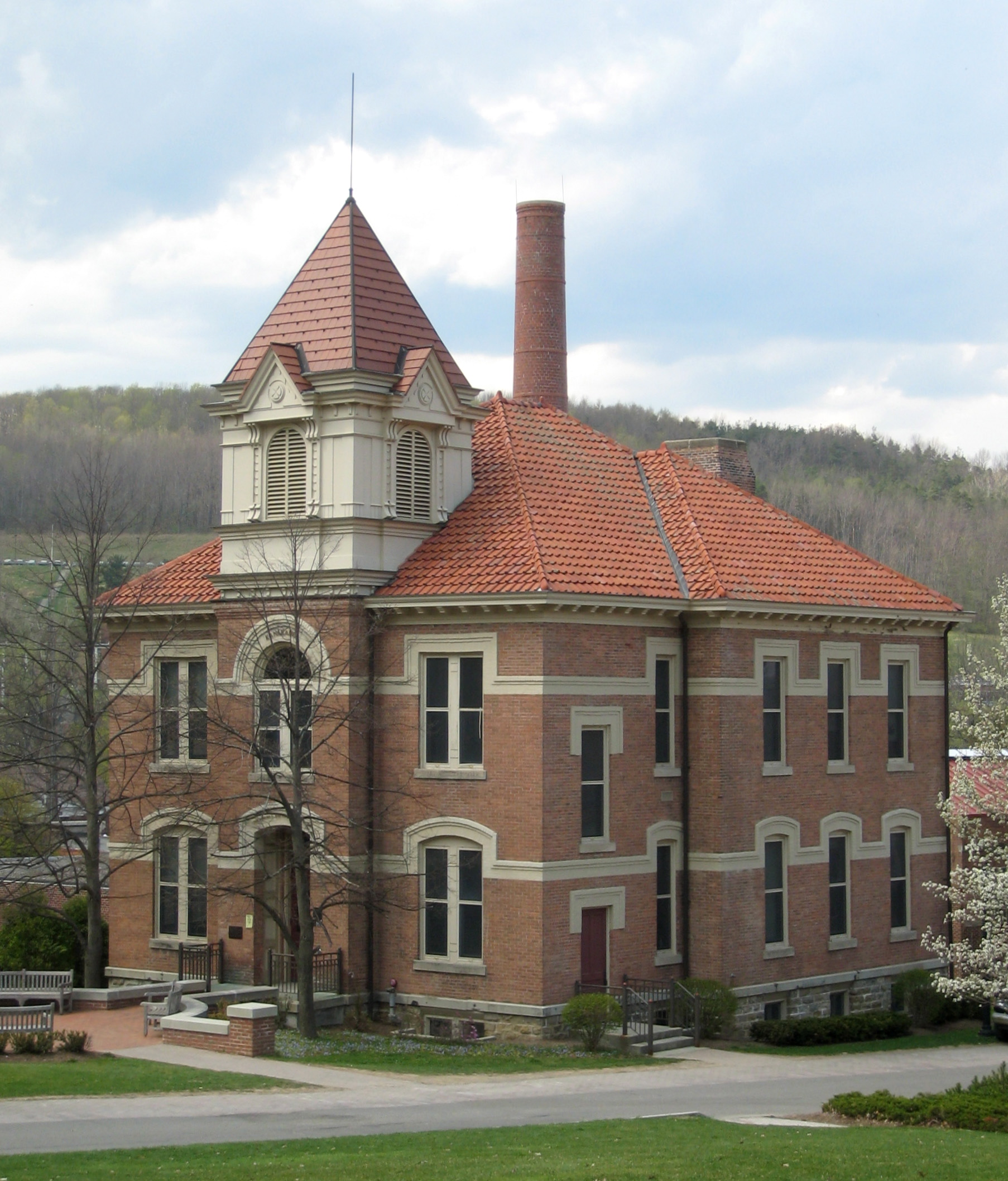 Kanakadea Hall at Alfred University in Alfred, New York. Originally built in 1884, it served as Alfred's schoolhouse until a large fire destroyed the tower and devastated the second floor in 1907. It was sold to Alfred University and repaired in 1908. The exterior has since been restored to its original appearance, although the interior has been fully modernized. The building now houses the Division of Human Studies. The smokestack is part of the Physical Plant building behind Kanakadea. (Alfred University. The Edward G. Coll and Carole Hulse Coll Center at Kanakadea. Alfred University Campus Map. Retrieved on 2008-04-27.)